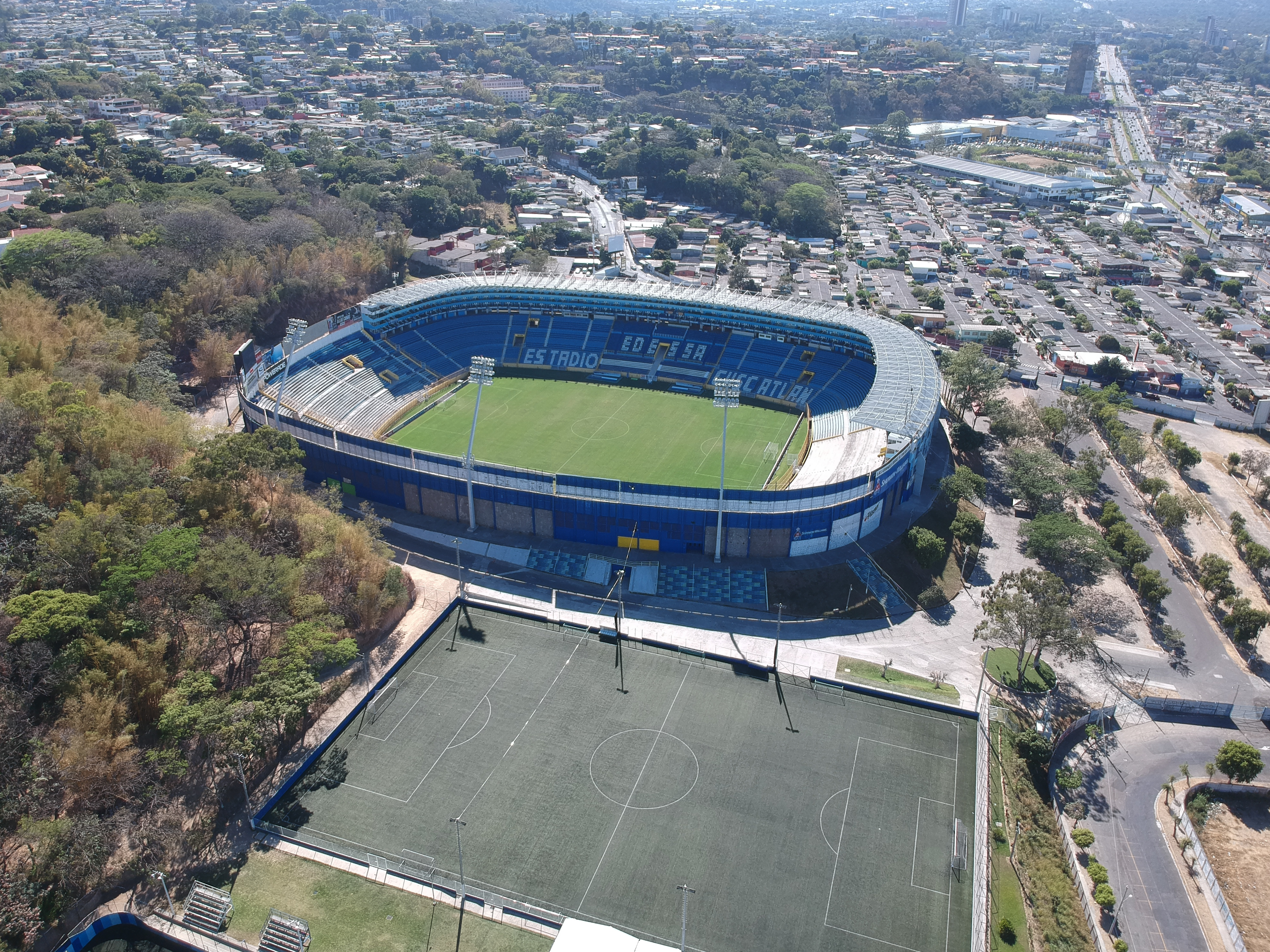 Cuscatlan Stadium